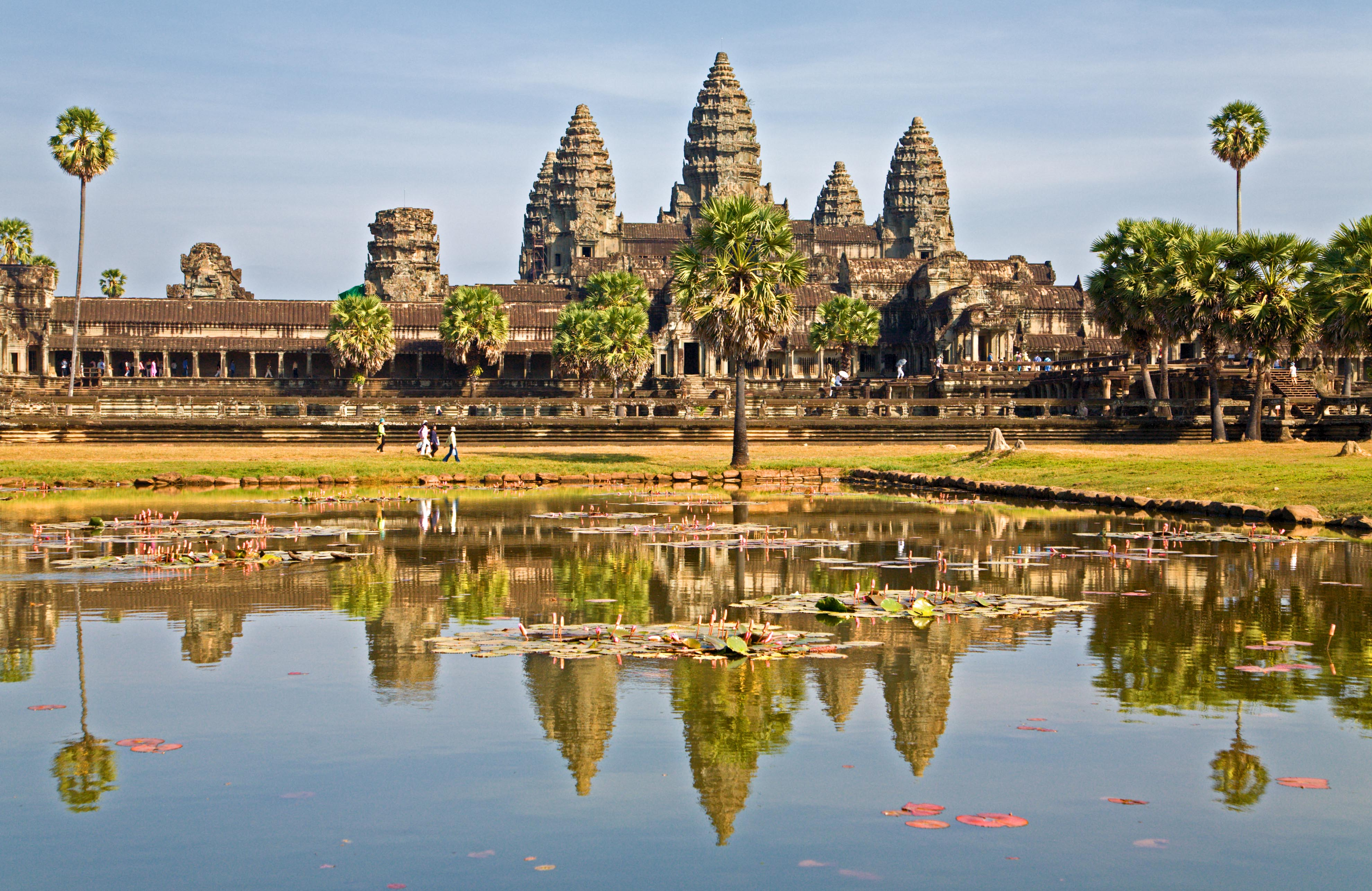 Siem Reap Reflections (CAMBODIA/REFLECTION/ANGKOR WAT) VI Needs additional description